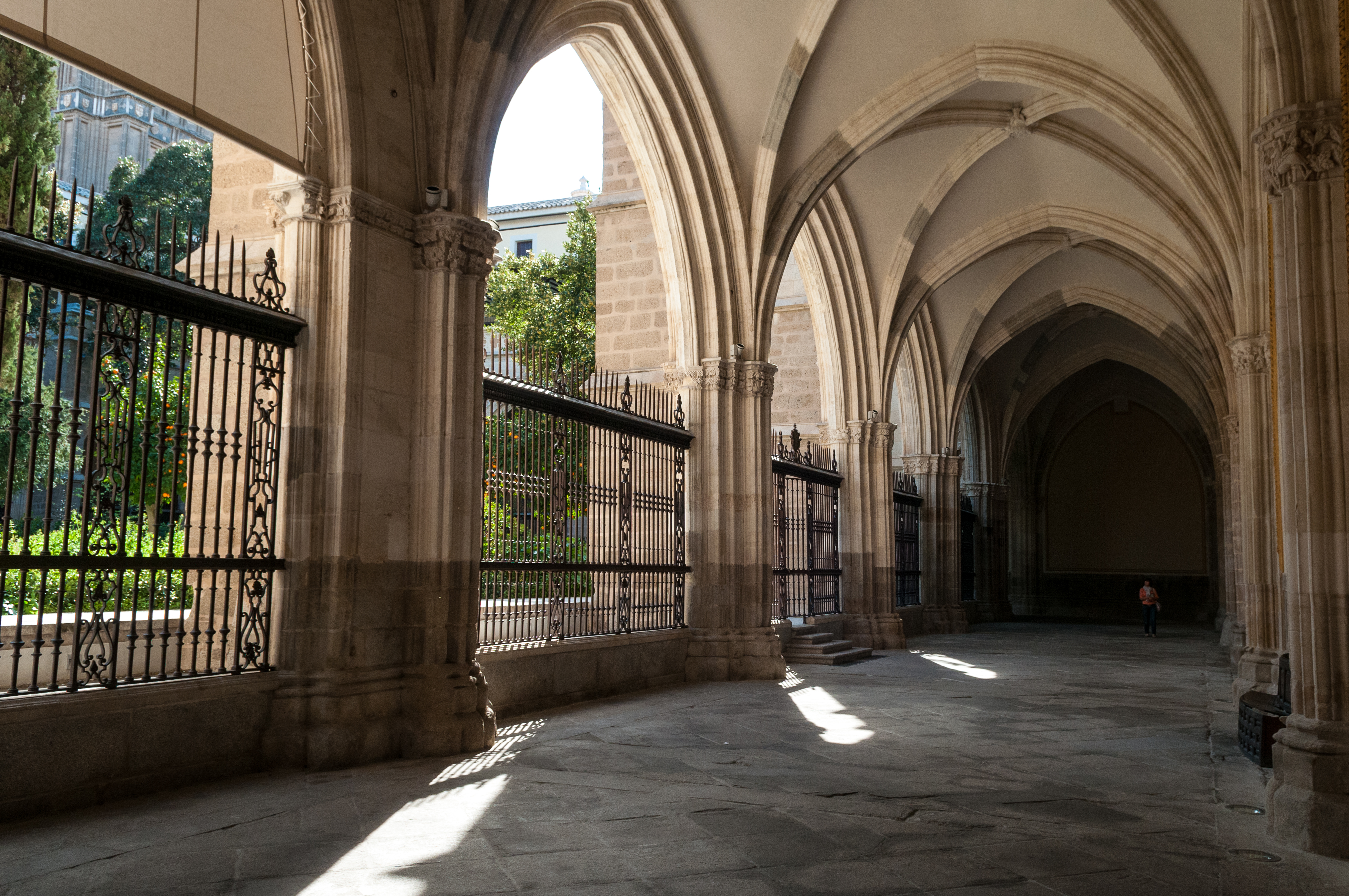 The Primate Cathedral of Saint Mary of Toledo (Spanish: Catedral Primada Santa María de Toledo) is a Roman Catholic cathedral in Toledo, Spain, see of the Metropolitan Archdiocese of Toledo. The cathedral of Toledo is one of the three 13th century High Gothic cathedrals in Spain and is considered, in the opinion of some authorities, to be the magnum opus of the Gothic style in Spain. It was begun in 1226 under the rule of Ferdinand III and the last Gothic contributions were made in the 15th century when, in 1493, the vaults of the central nave were finished during the time of the Catholic Monarchs. It was modeled after the Bourges Cathedral, although its five naves plan is a consequence of the constructors' intention to cover all of the sacred space of the former city mosque with the cathedral, and of the former sahn with the cloister. It also combines some characteristics of the Mudéjar style, mainly in the cloister, and with the presence of multifoiled arches in the triforium. The spectacular incorporation of light and the structural achievements of the ambulatory vaults are some of its more remarkable aspects. It is built with white limestone from the quarries of Olihuelas, near Toledo. It is popularly known as Dives Toletana (meaning The Rich Toledan in Latin) Cathedral of Toledo. (2012, March 12). In Wikipedia, The Free Encyclopedia. Retrieved 09:46, April 15, 2012, from